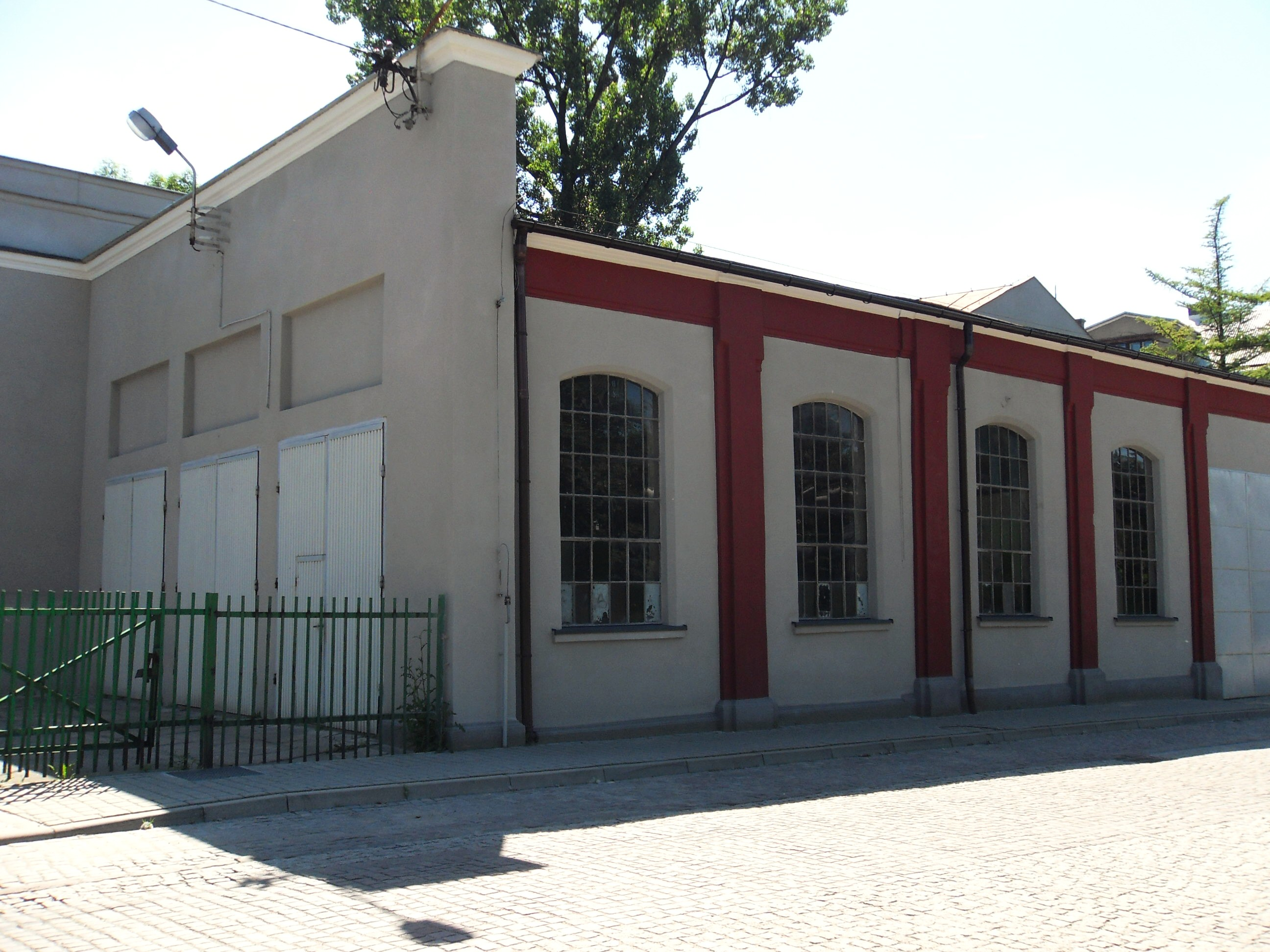 Former tram depot, Cieszyn, Poland.